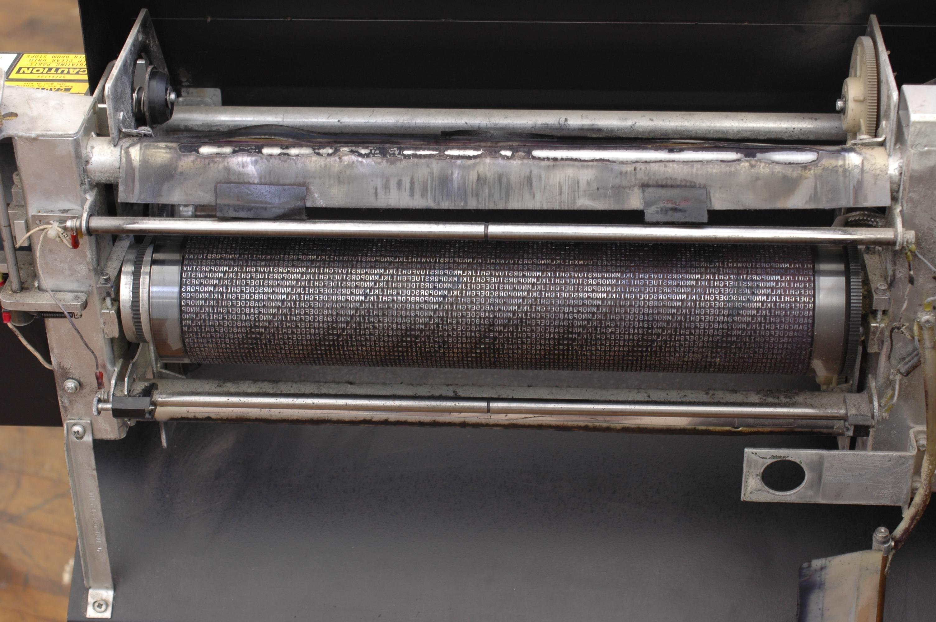 Drum in a drum printer. From the collection of the Retro-Computing Society of Rhode Island, Inc.[1]